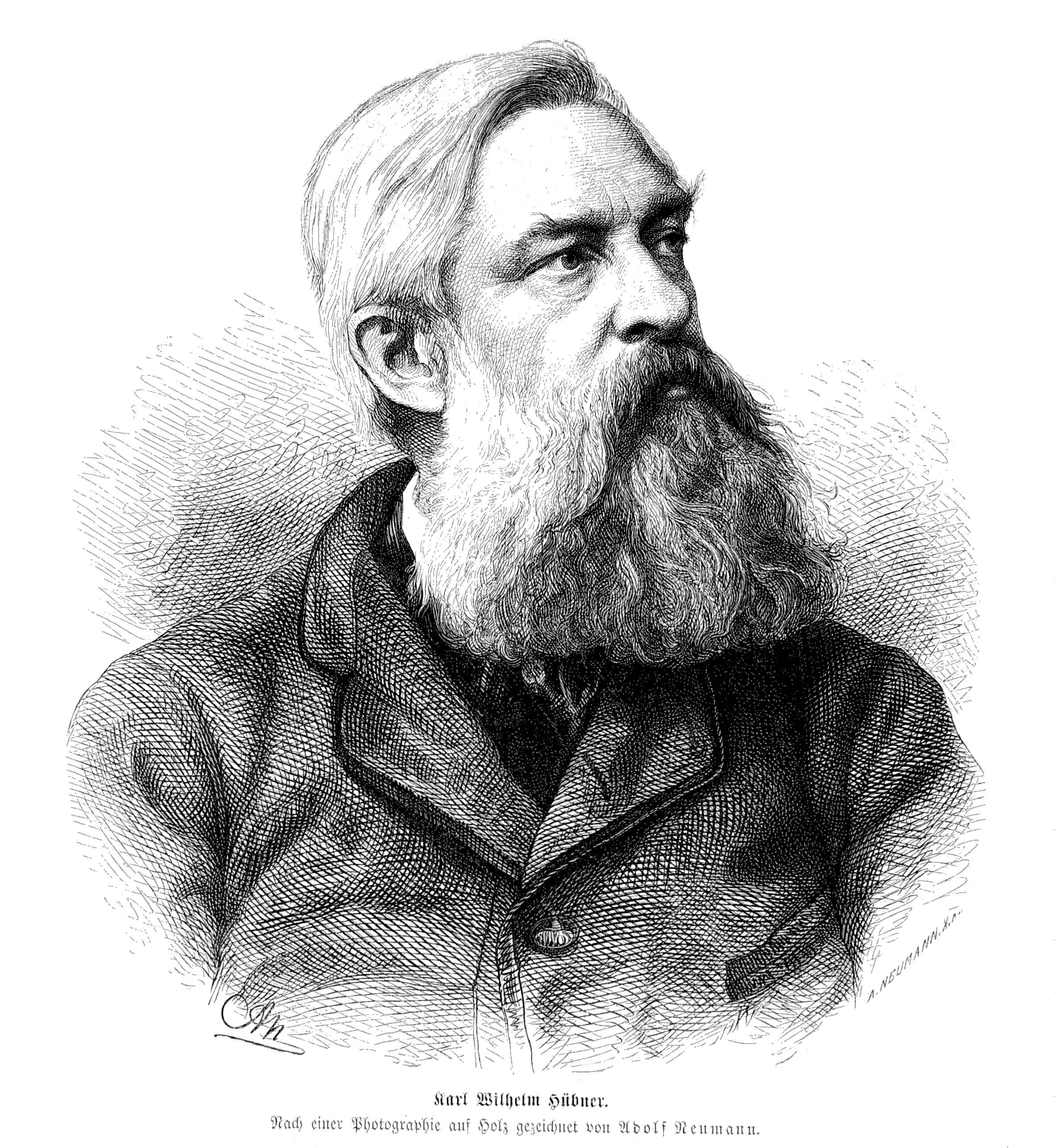 caption: "Karl Wilhelm Hübner. Nach einer Photographie auf Holz gezeichnet von Adolf Neumann."